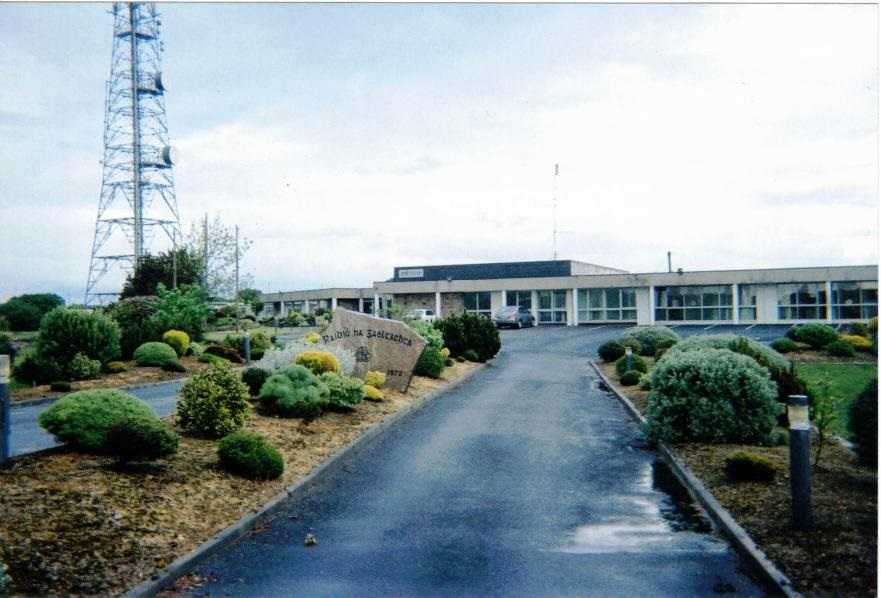 HQ of RTÉ Raidió na Gaeltachta, Casla, Conamara, Co. Galway (2014).